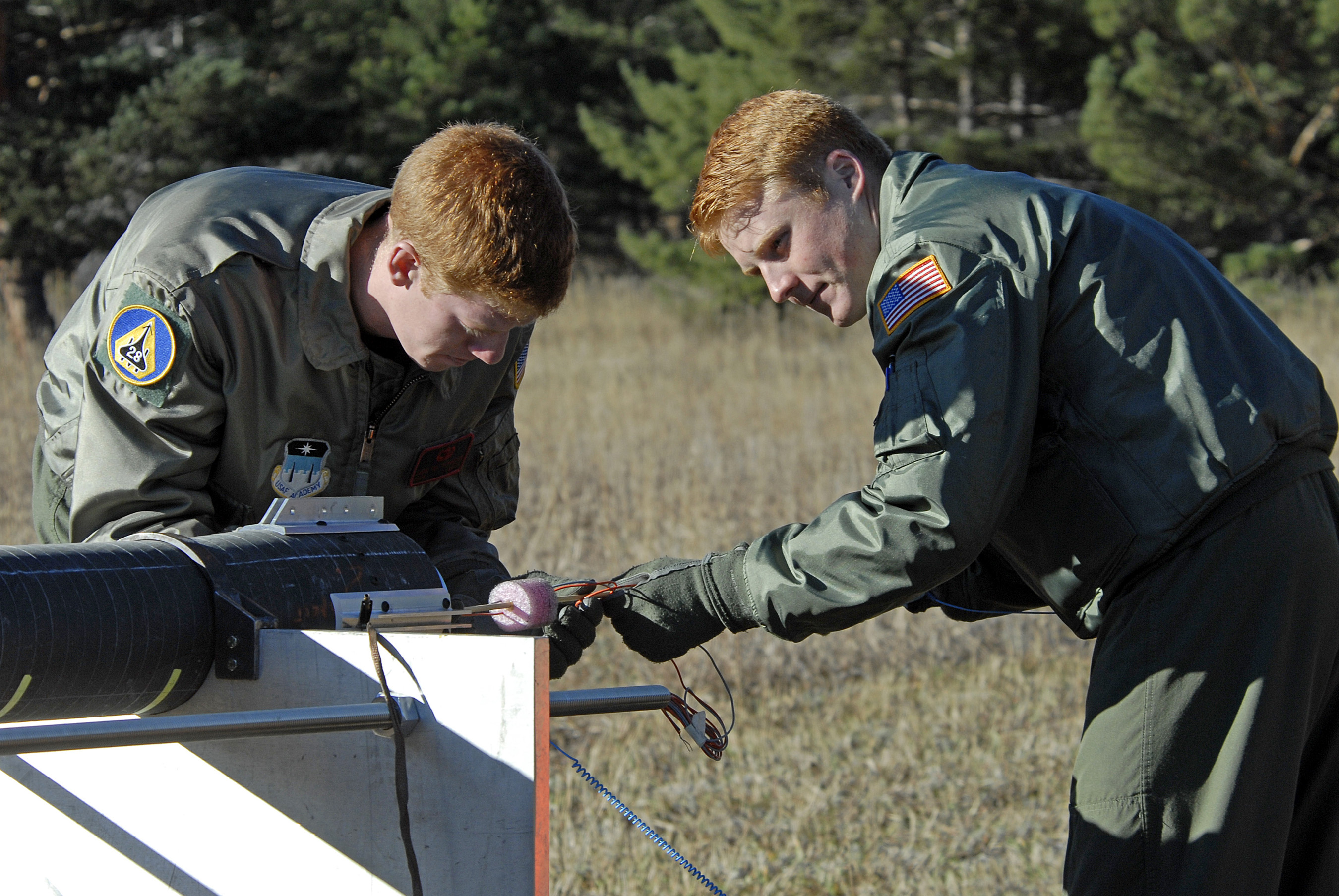 Cadets 1st Class Daniel Richardson and Sean Foote prepare FalconLaunch 6 for a static test fire in Jacks Valley at the U.S. Air Force Academy, Colorado, November 4, 2009. The rocket exploded a fraction of a second into the test firing, leaving cadets to determine the cause of the malfunction.